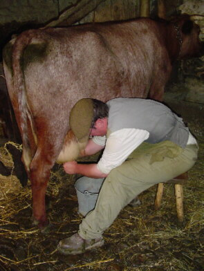 Man milking a cow the old-fashioned way